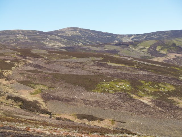 Mount Battock Taken from the SW.